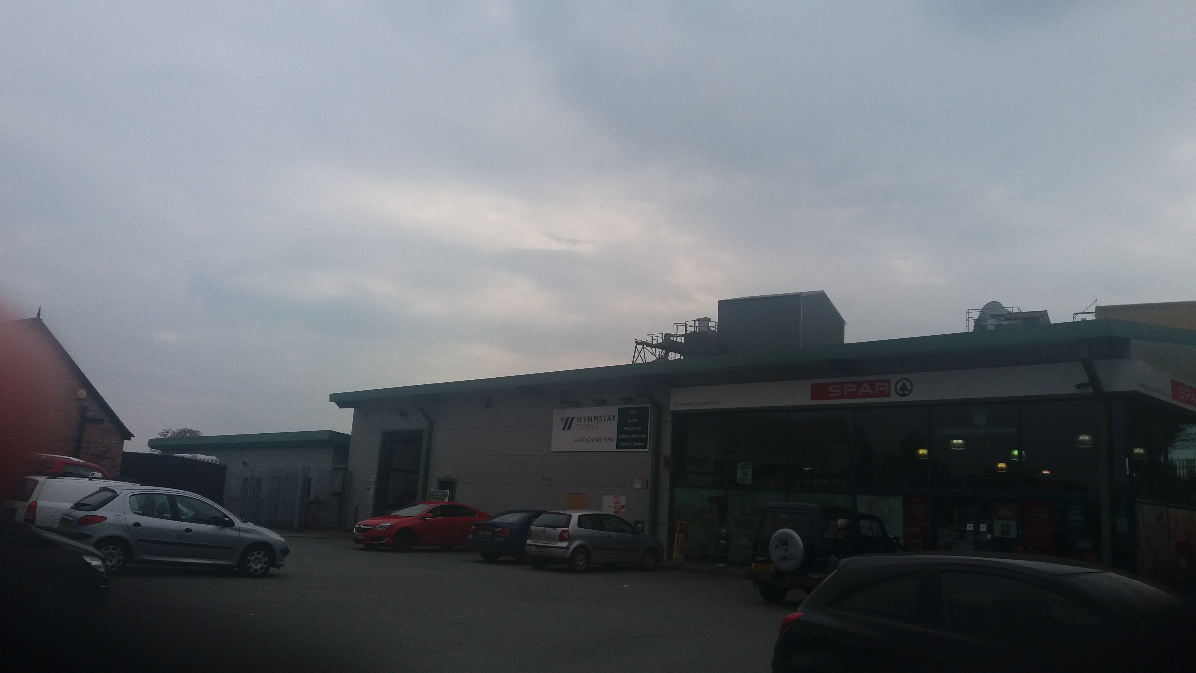 The former mill and goods shed at Llansantffraid station, now a Wynnstay and Spar.